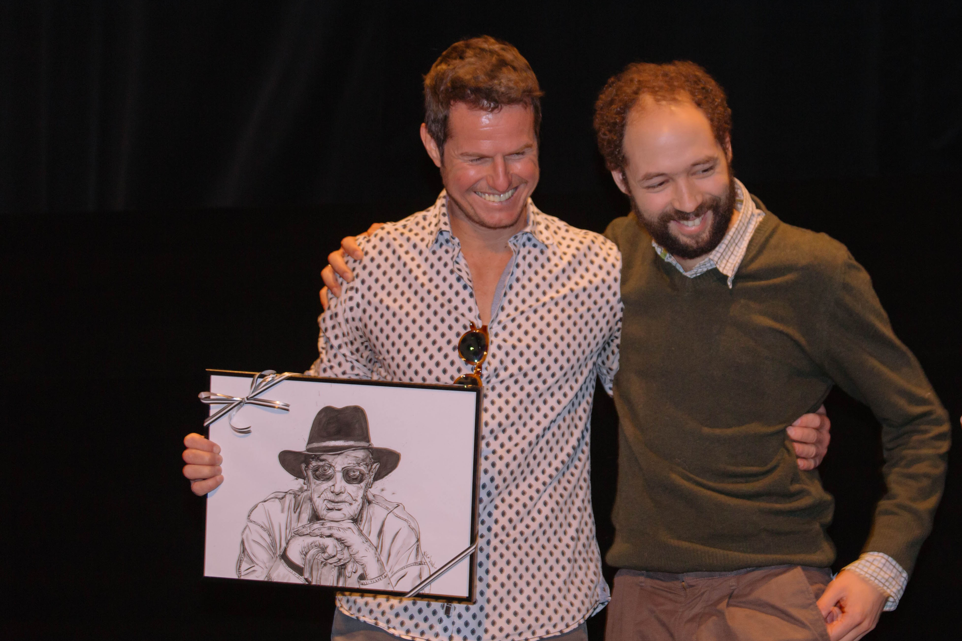 Actor Ricardo Trêpa was an invited guest at Frames Festival in 2016